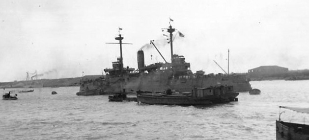 Photo of Japanese repair and depot ship ASAHI photographed off Shanghai in the late 1930s